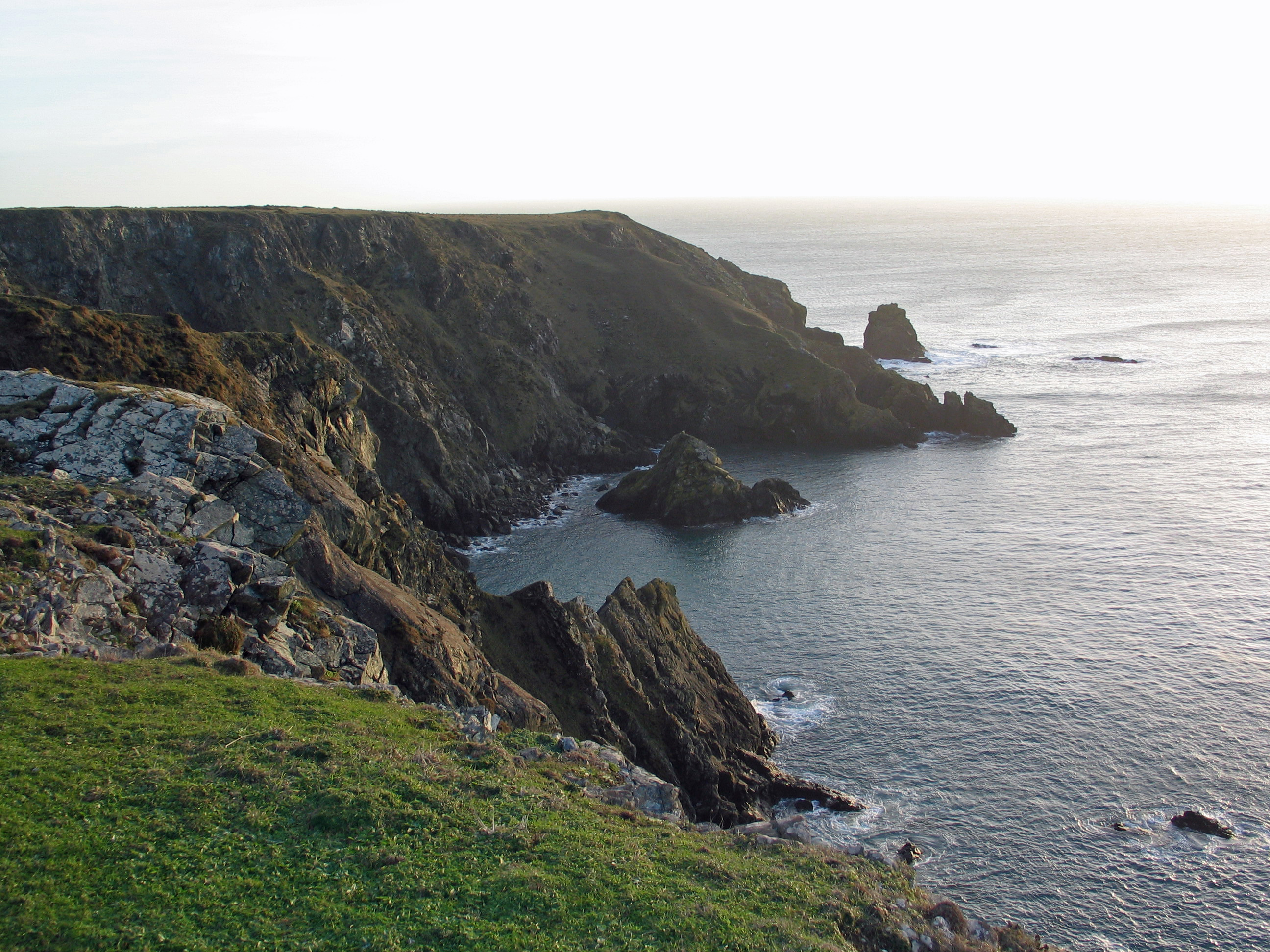 View of Predannack Cliffs, Mullion, Cornwall, UK. Taken March 2007 using a Canon Powershot G5. Taken by and uploaded by TrevelyanD